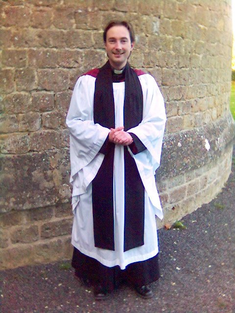 Picture of Anglican priest in choir habit — cassock, surplice, academic hood (University of Wales BD) and tippet — taken by Gareth Hughes on 21 October 2005.